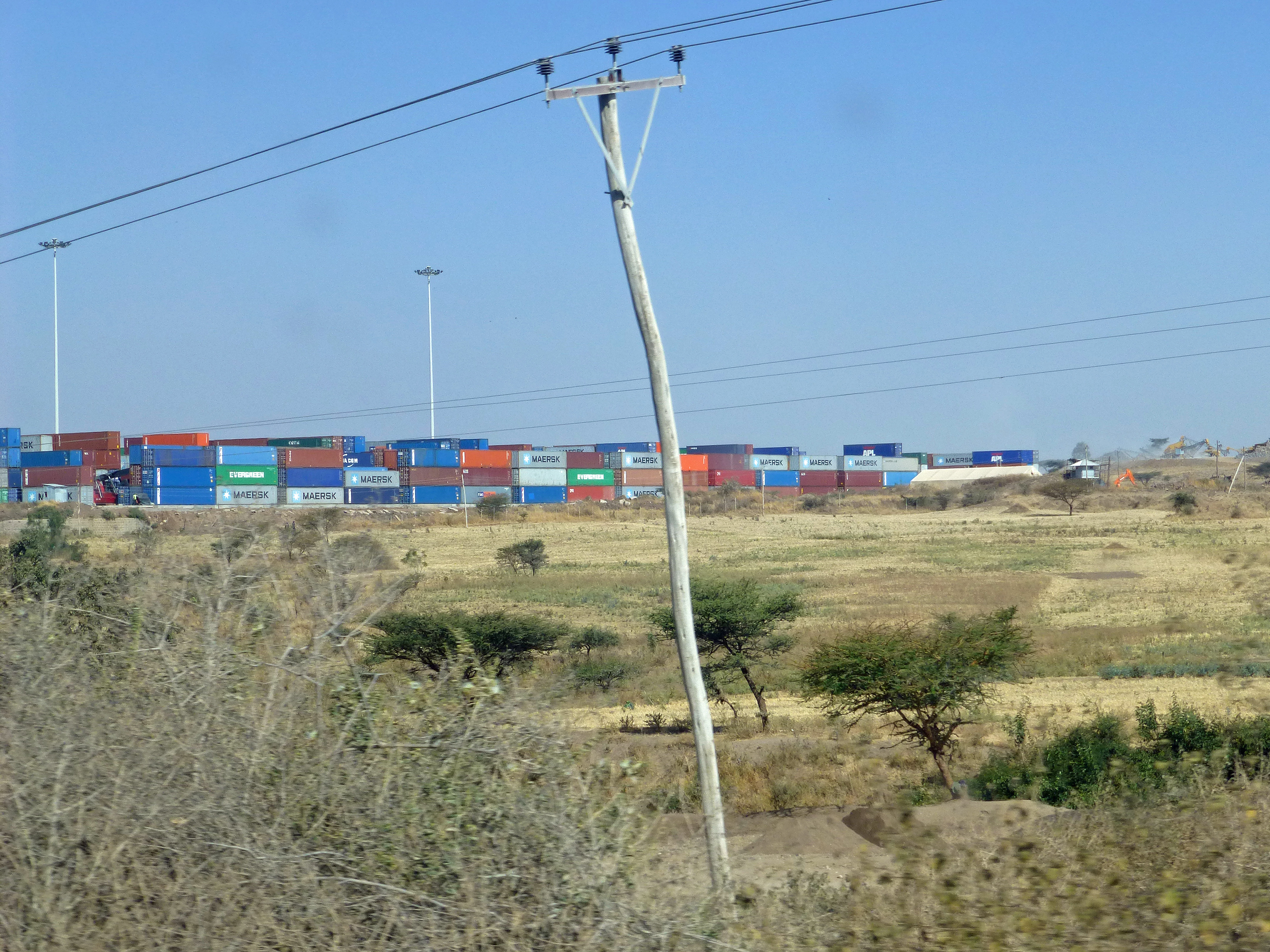 Modjo dry port, as seen from Adama (Oromia, Ethiopia)